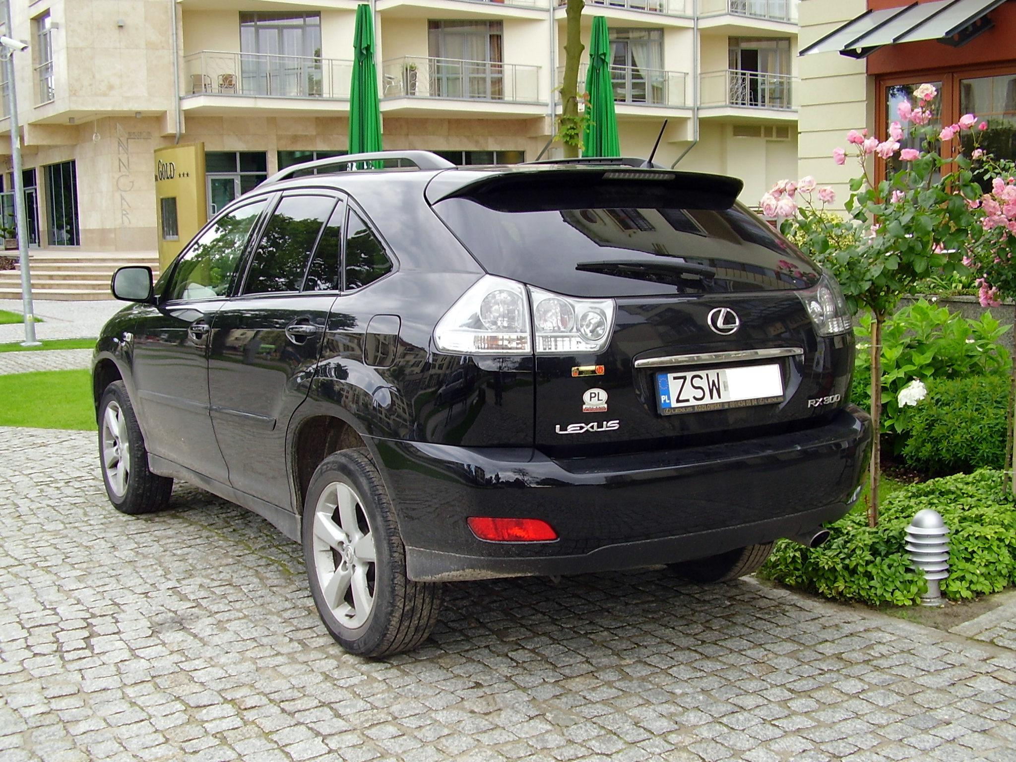 Lexus RX300 in Świnoujście (Poland)